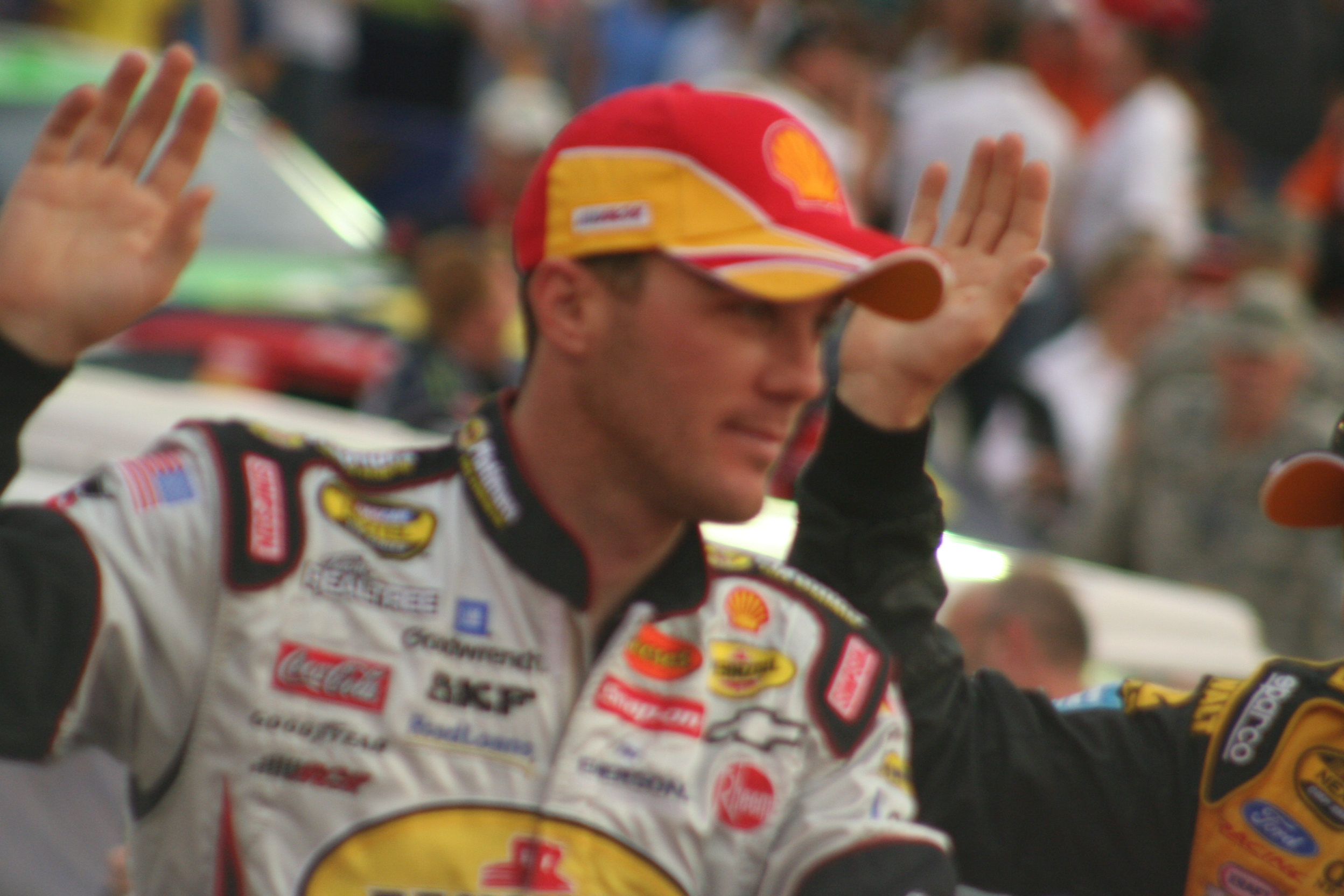 NASCAR driver Kevin Harvick in August 2007 at Bristol Motor Speedway